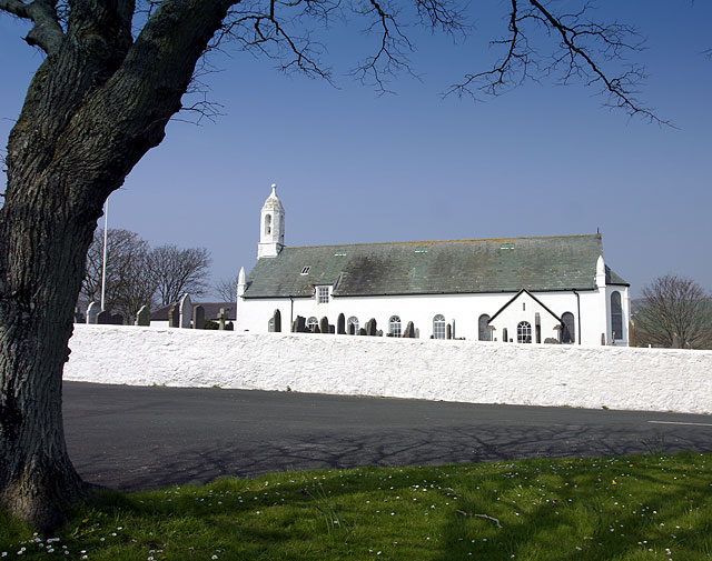 Rushen Parish Church. Kirk Christ - Holy Trinity. The old church was renovated and rededicated in 1775. The small apse was added in 1869